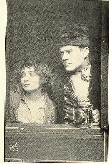 Marie Doro as Oliver and Lyn Harding as Bill Sikes in Oliver Twist at New Amsterdam Theatre.